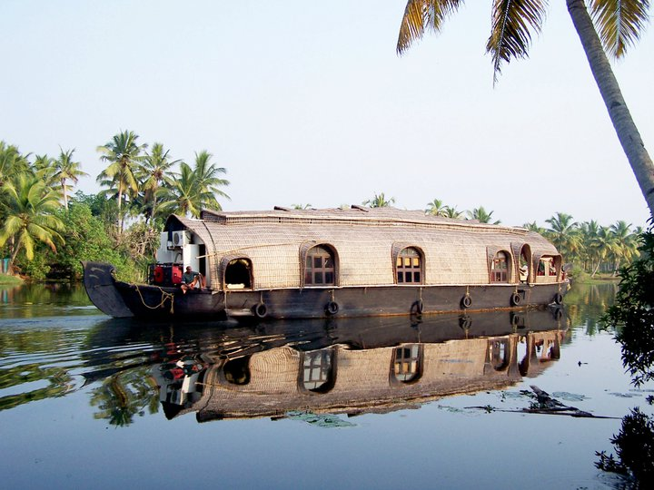 Back waters of pallana